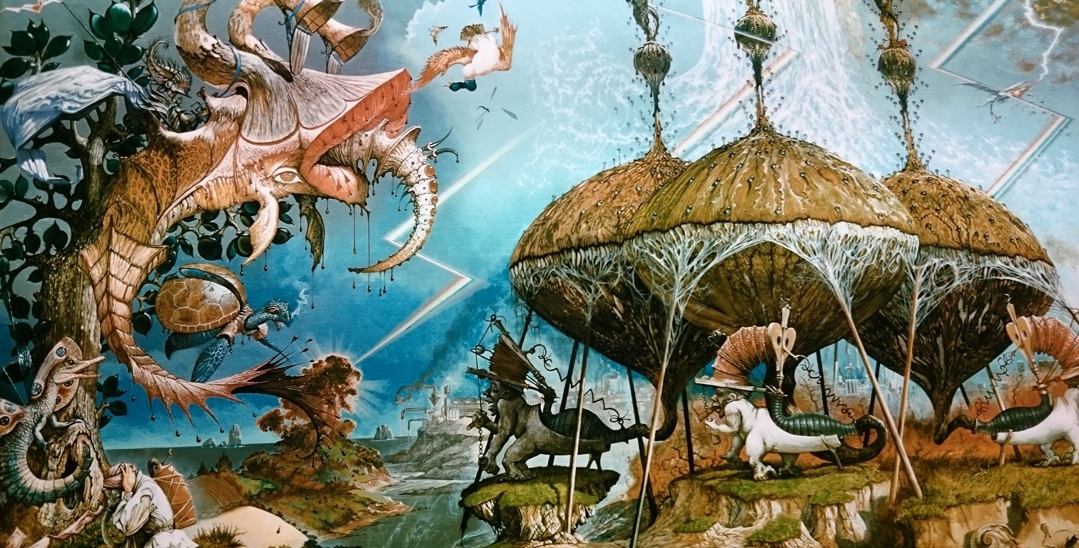 Woodroffe 2